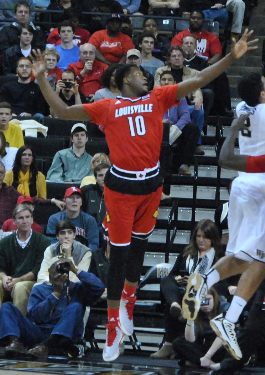 Devin Thomas goes to the basket against the Louisville Cardinals